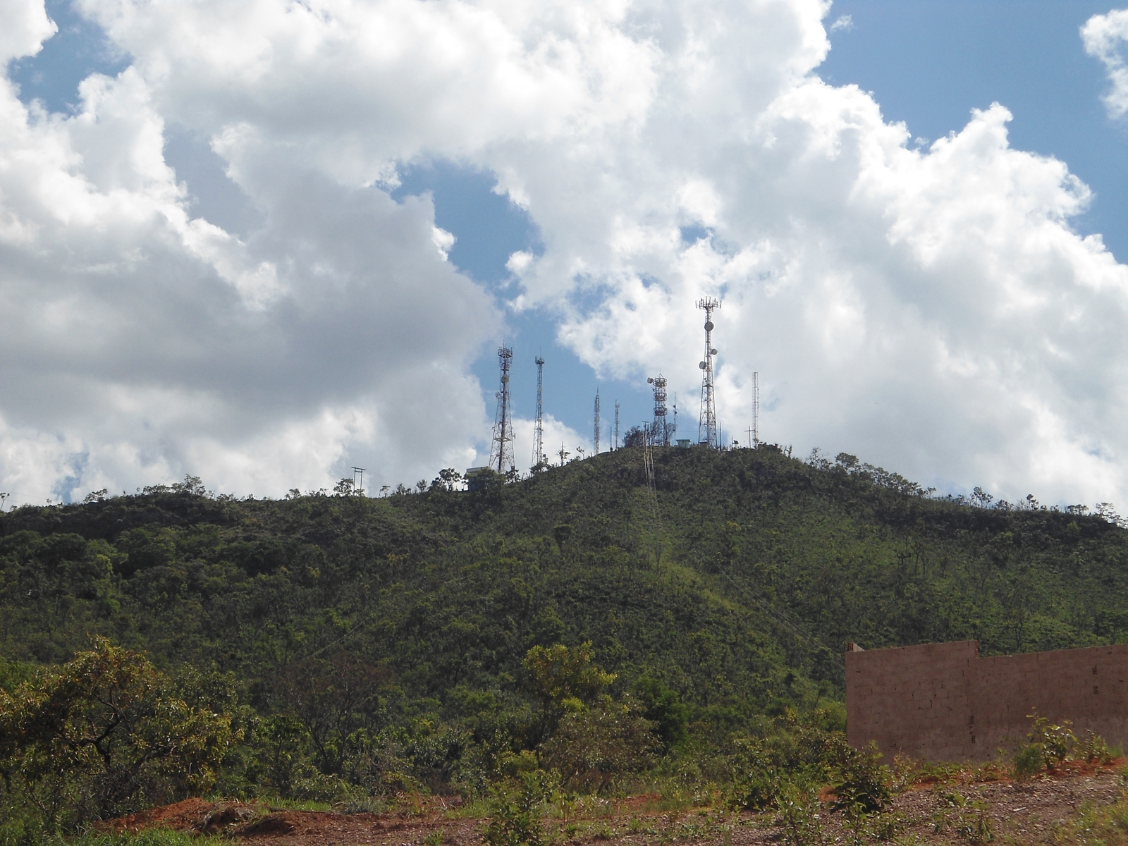 Communication towers in the Santa Cruz mountains, in Pará de Minas, Minas Gerais, Brazil.